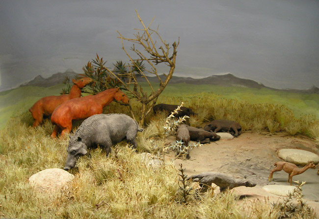 A small Miocene diorama from the old dinosaur museum display at the Royal Ontario Museum, Toronto.